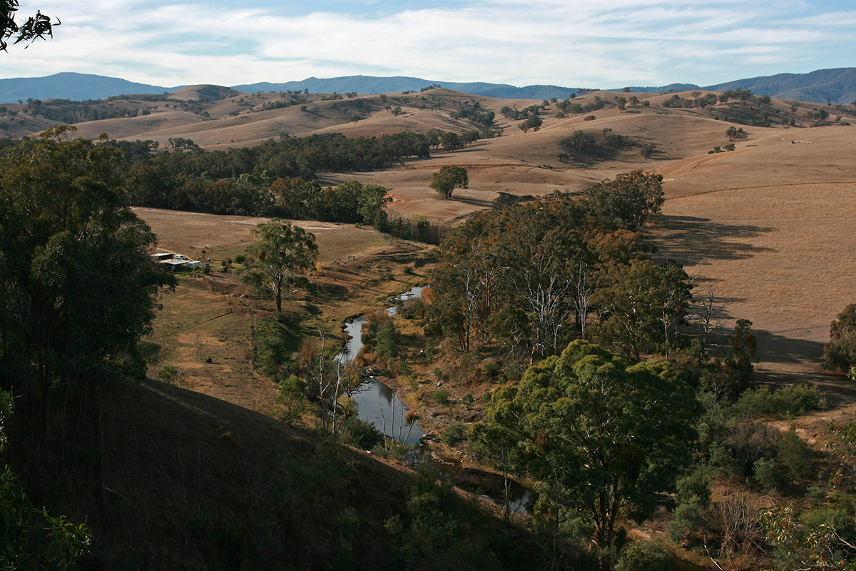 Tambo River and Tambo Valley south of Ensay, looking north-east from the 'Devils Backbone'. East Gippsland, Victoria, Australia.